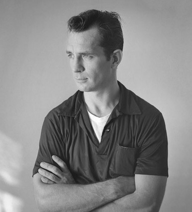 Jack Kerouac by photographer Tom Palumbo, circa 1956